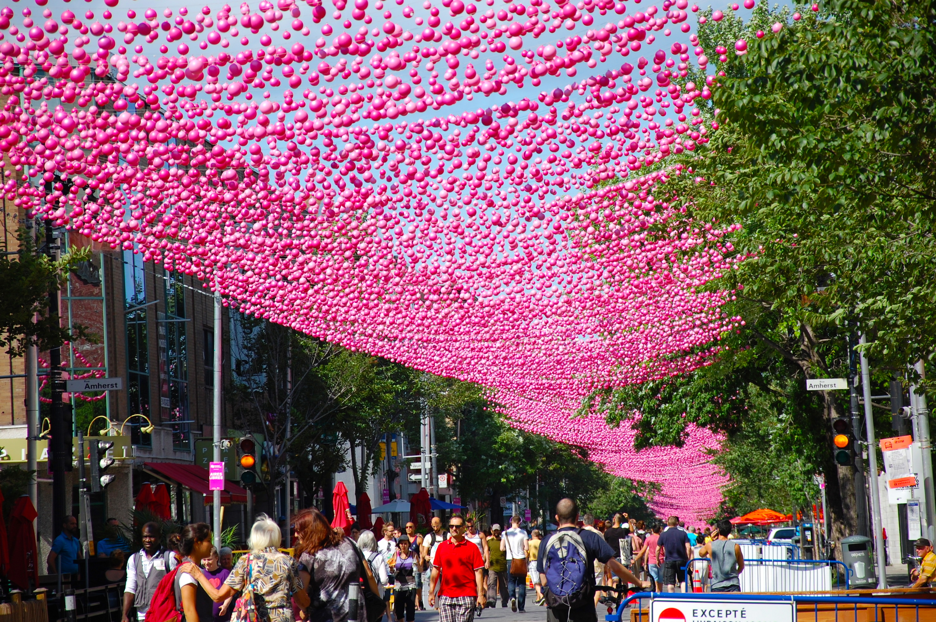 200,000 pink resin balls are strung across and down 1 kilometre of Montreal's Gay Village along Sainte-Catherine, Montreal from St-Hubert to Papineau during the summer when the street is pedestrianized.